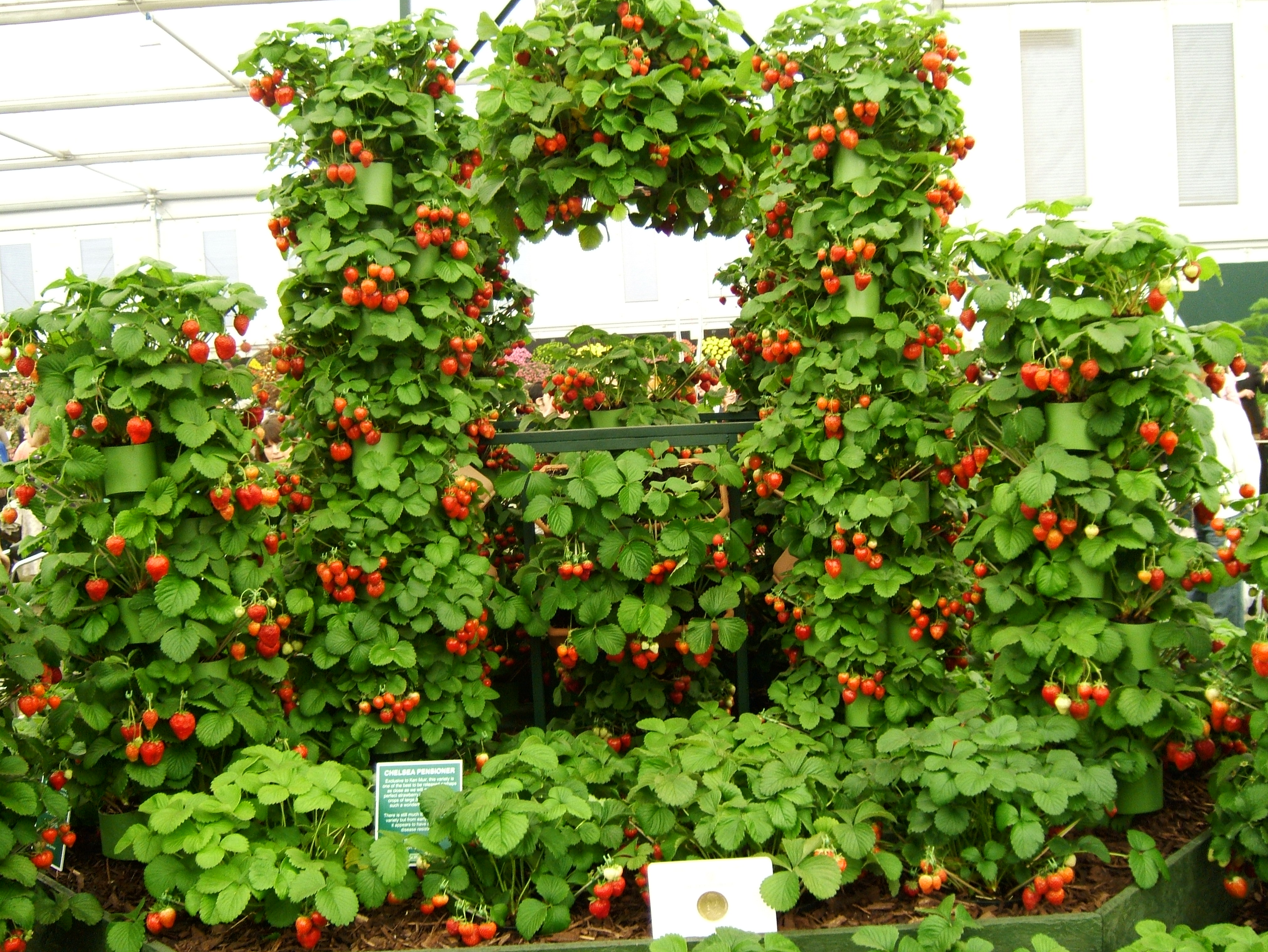 Strawberries on display at Chelsea Flower Show, 2009